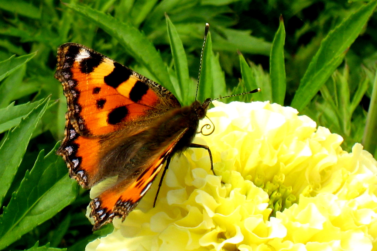 A small tortoiseshell, taken by me on the 21st of June 2007.